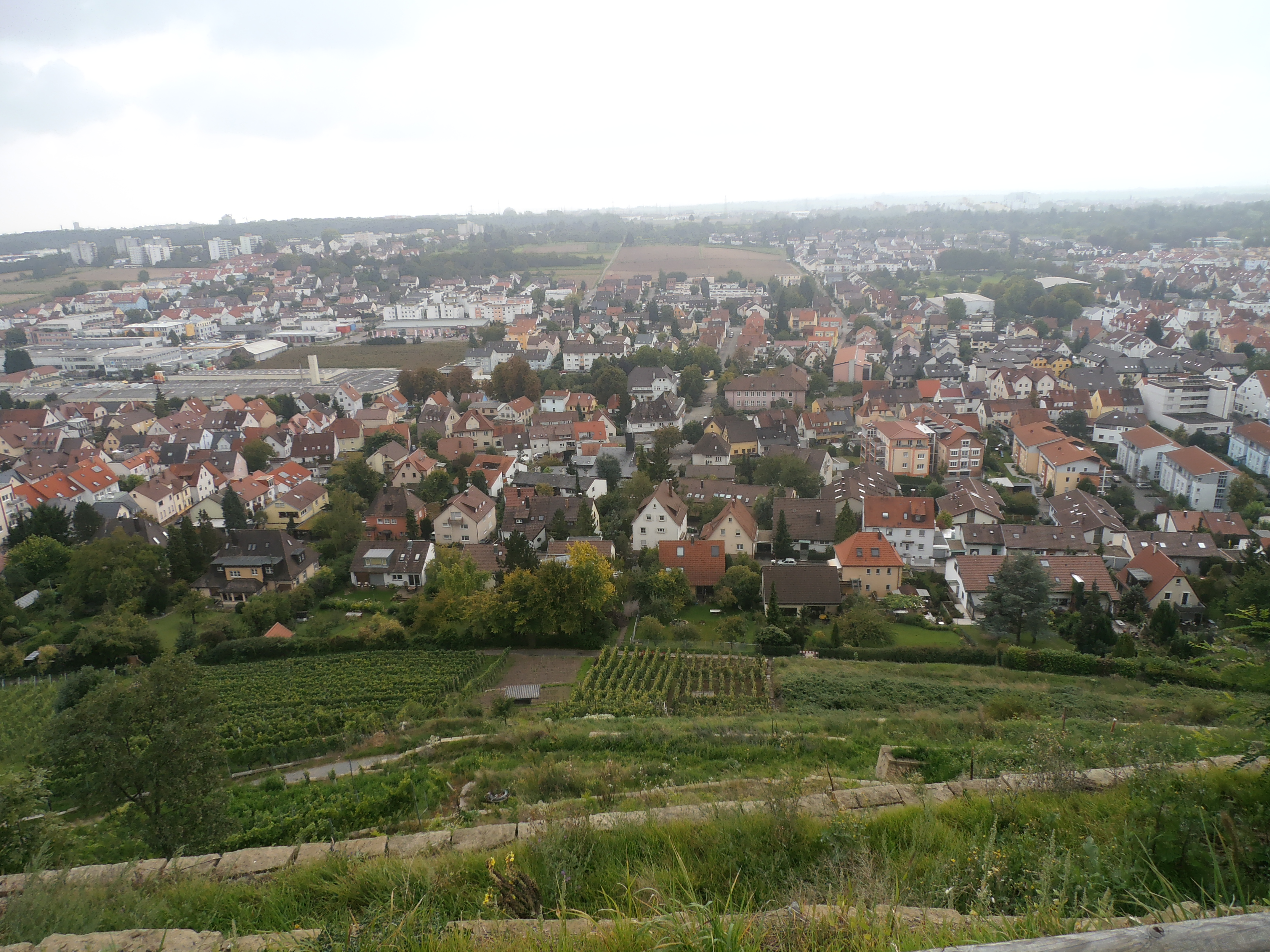 view vom Hohenasperg over Asperg